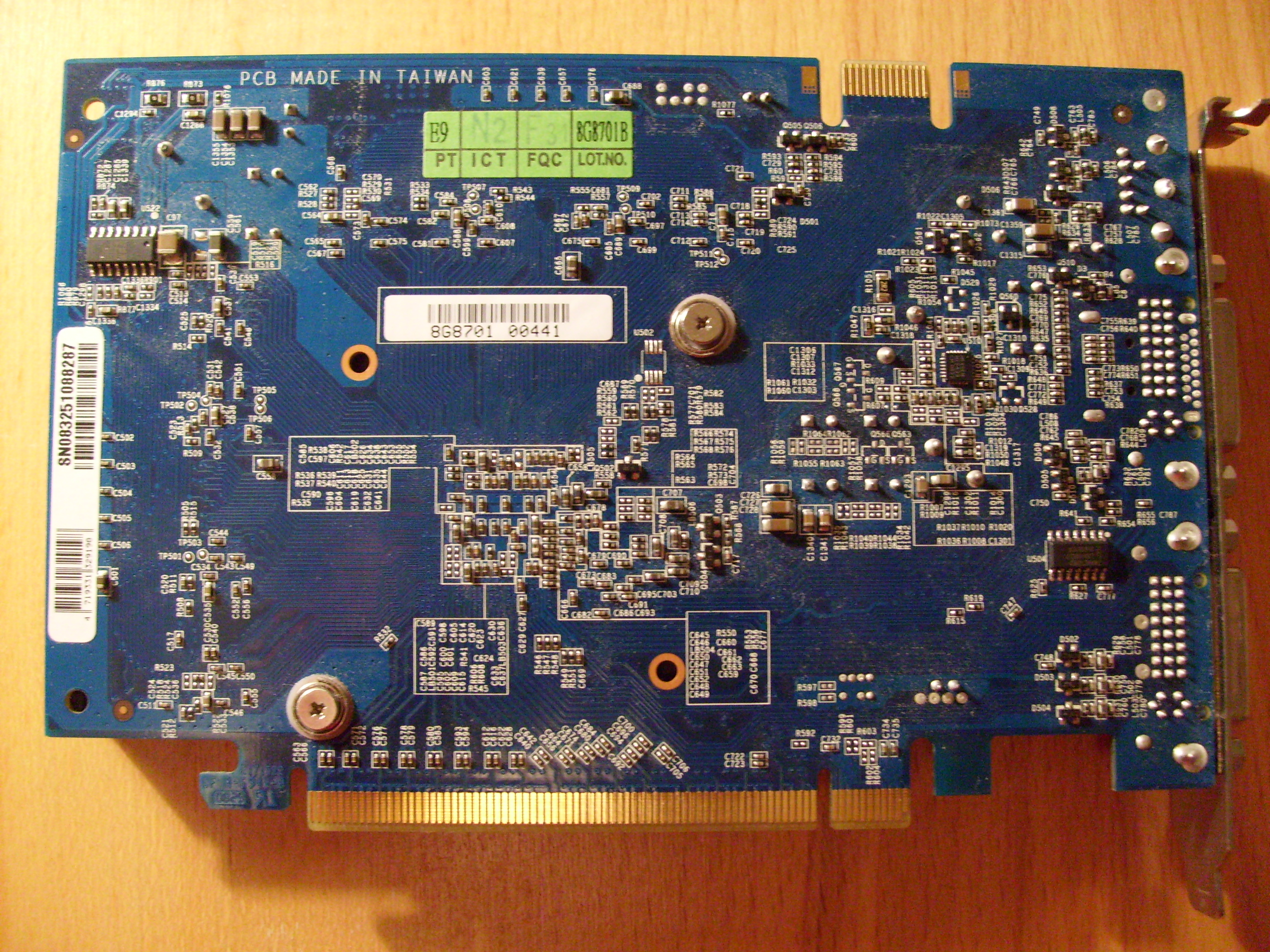 Gigabyte NVIDIA GeForce 9500 GT 512 Mb DDR2, back